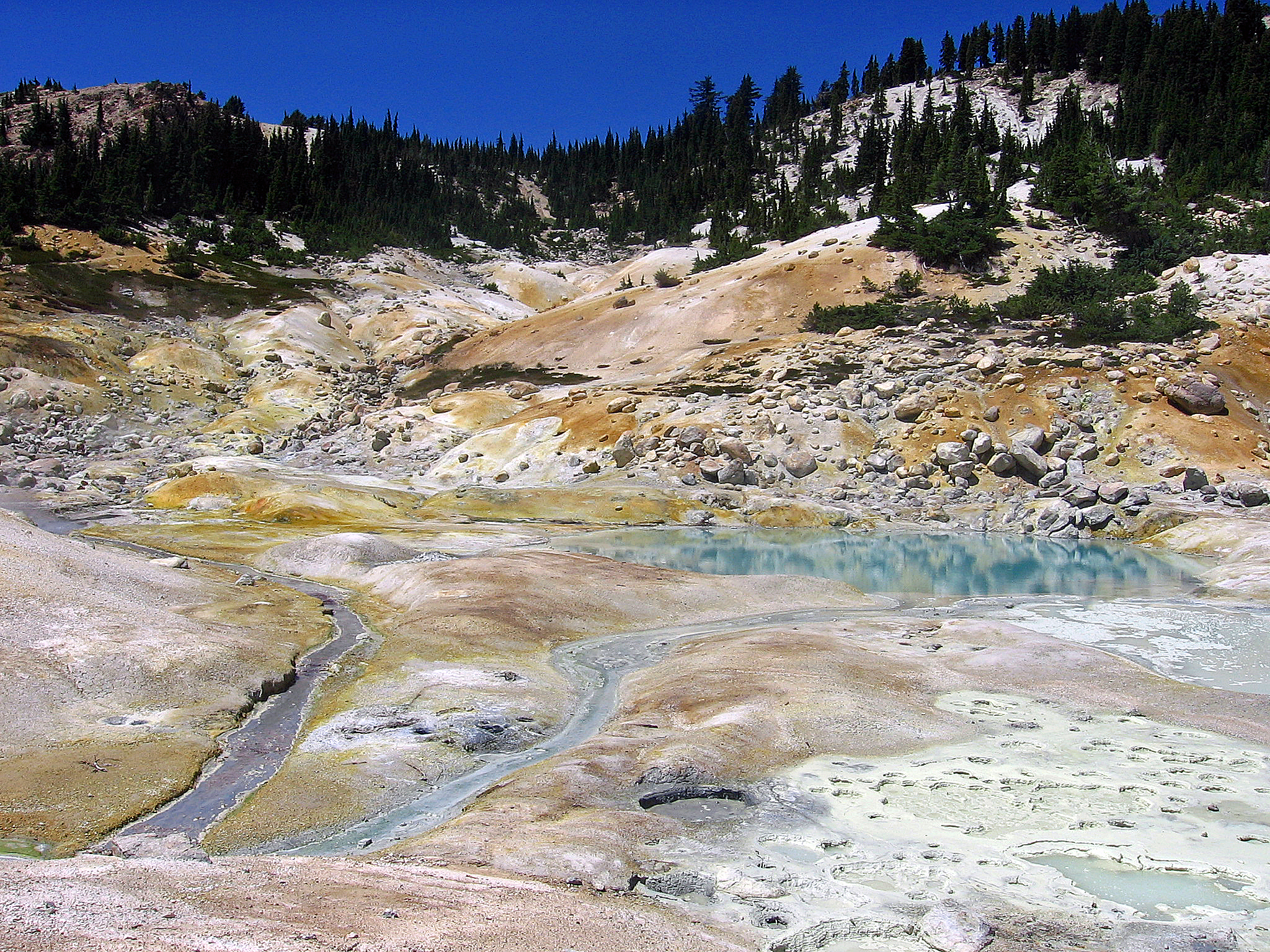 Taken by Bryan Bulmer in August 2007 from the main boardwalk in Bumpass Hell. This photo shows the vibrant water colors due to the geotheral activity. Believe it or not, this was taken using a 3.2 Megapixel camera.